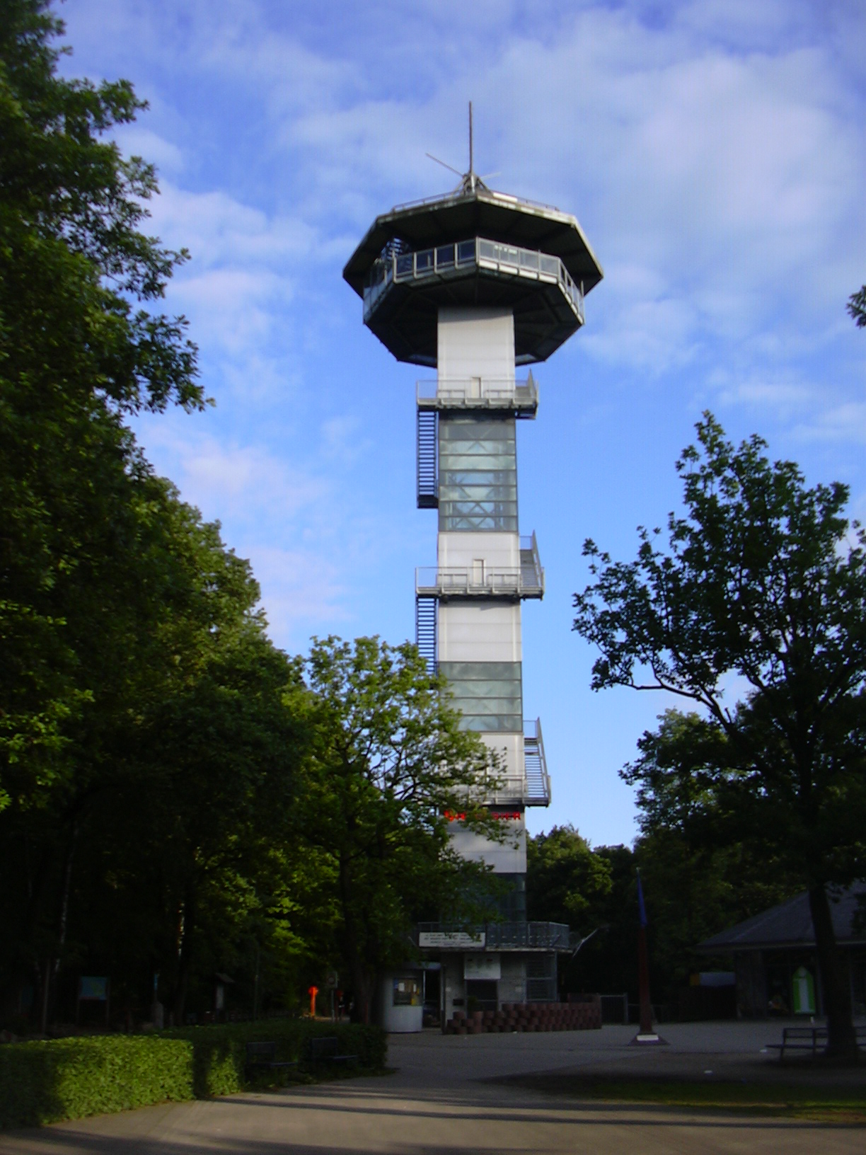 King Baudouin Tower "Drielandenpunt" frontier Germany / The Netherlands / Belgium